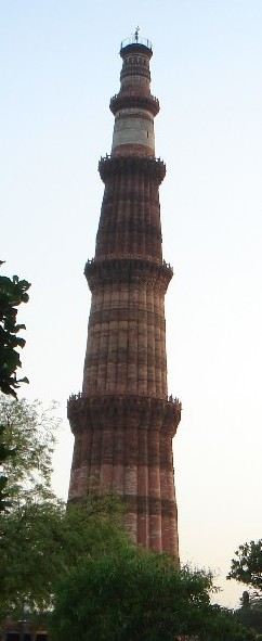 Picture by Kaiser Tufail during visit to Delhi. 26-4-08